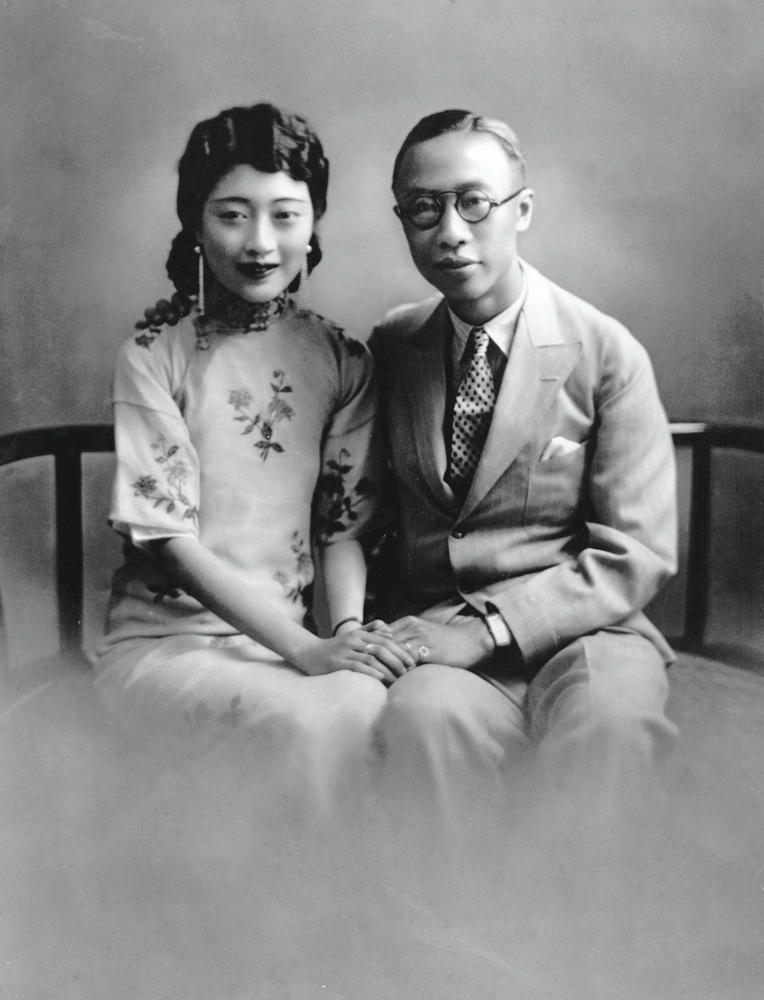 Puyi, last emperor of China, with his consort Wan Rong, last empress of China.